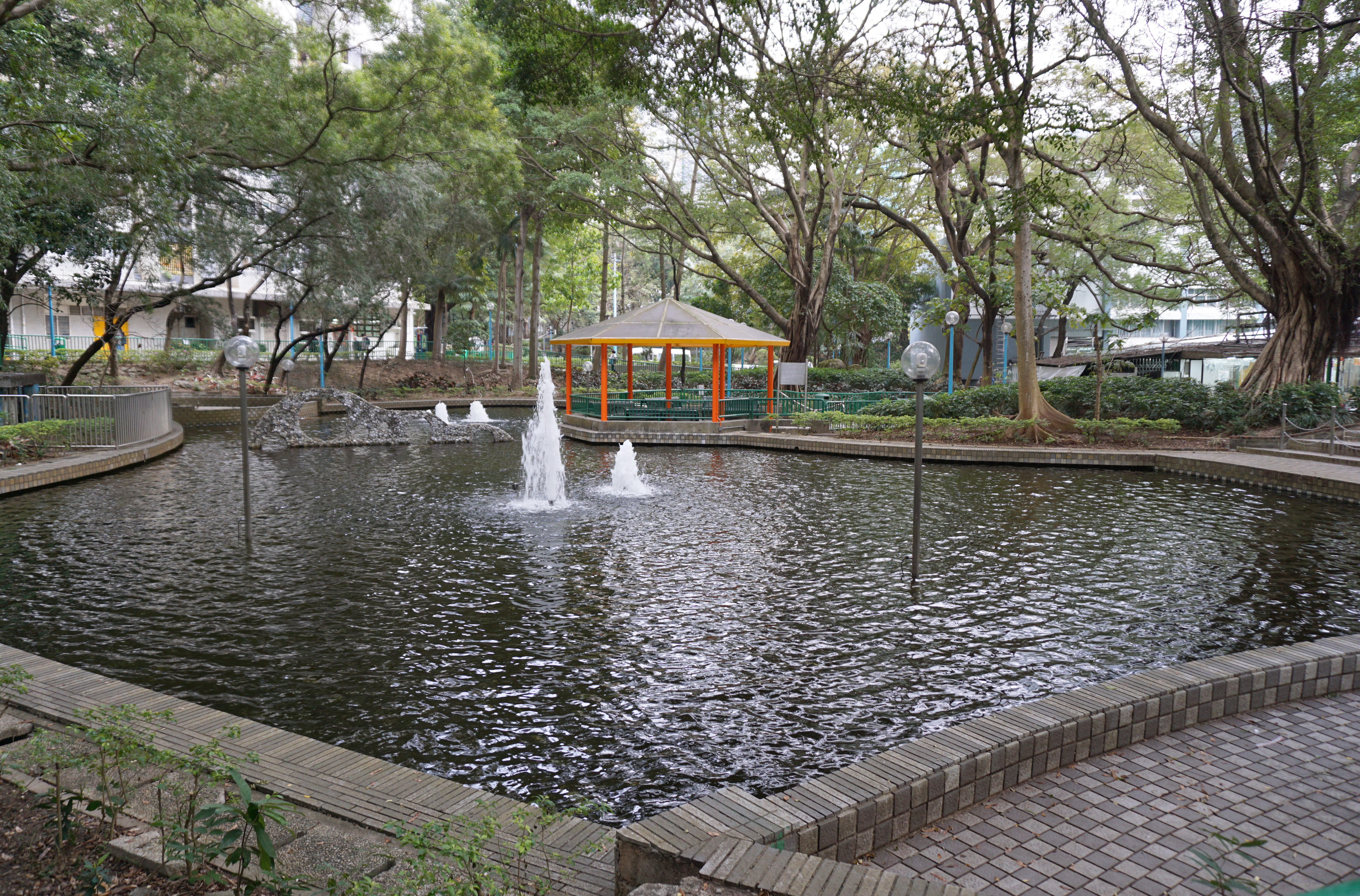 Pok Hong Estate in Sha Tin Wai, Hong Kong.